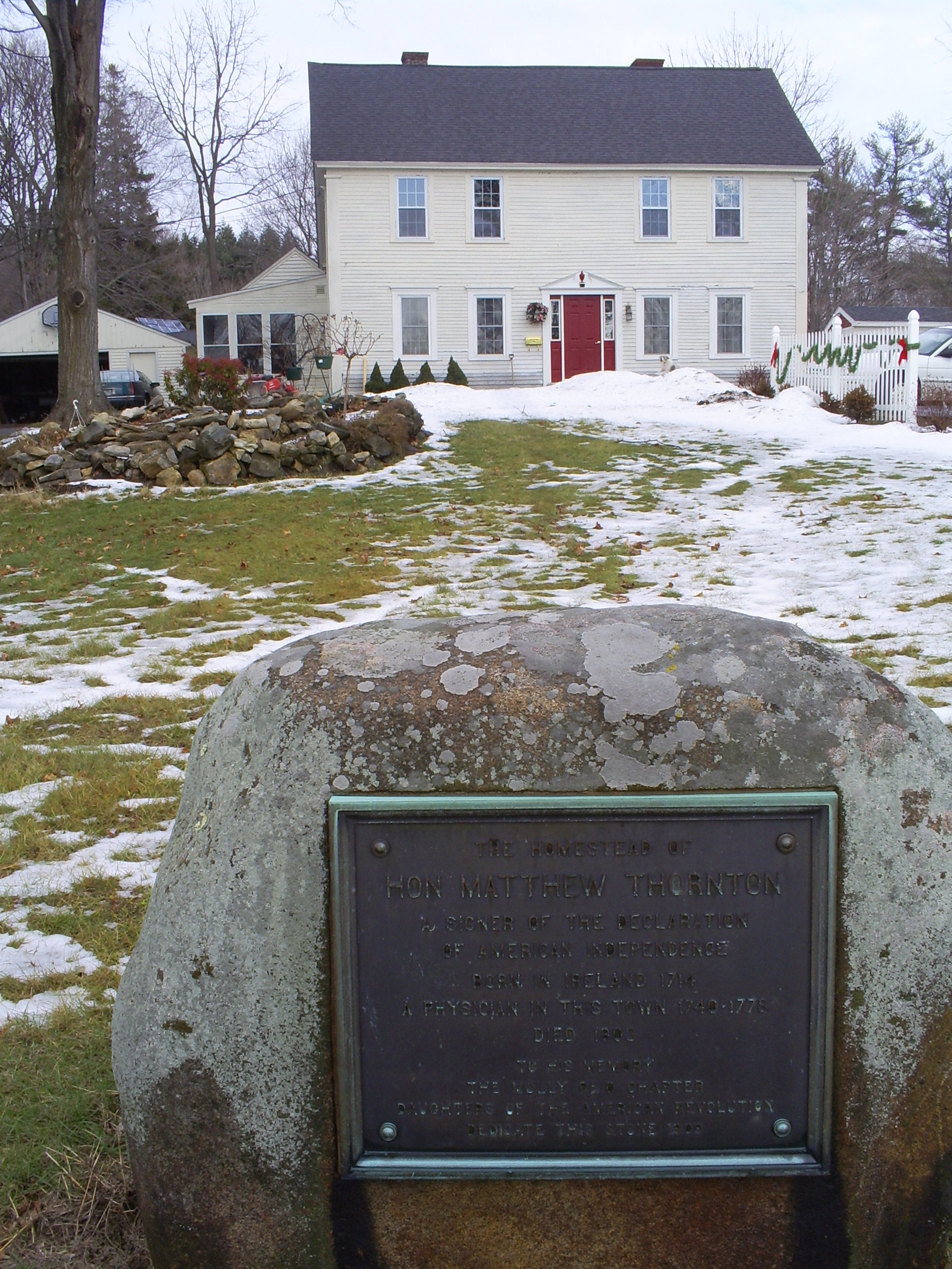 Photo by Craig Michaud. This is the former home of Declaration of Independence signer Matthew Thornton.It is located in Derry, New Hampshire.